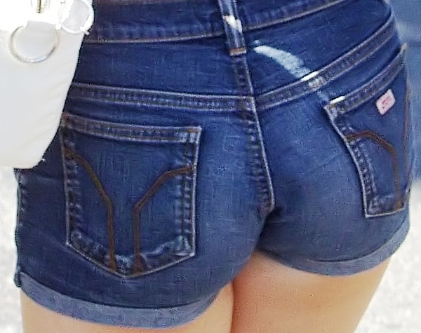 Members of the Christopher Street Day demonstration - ColognePride 2006 (detail)